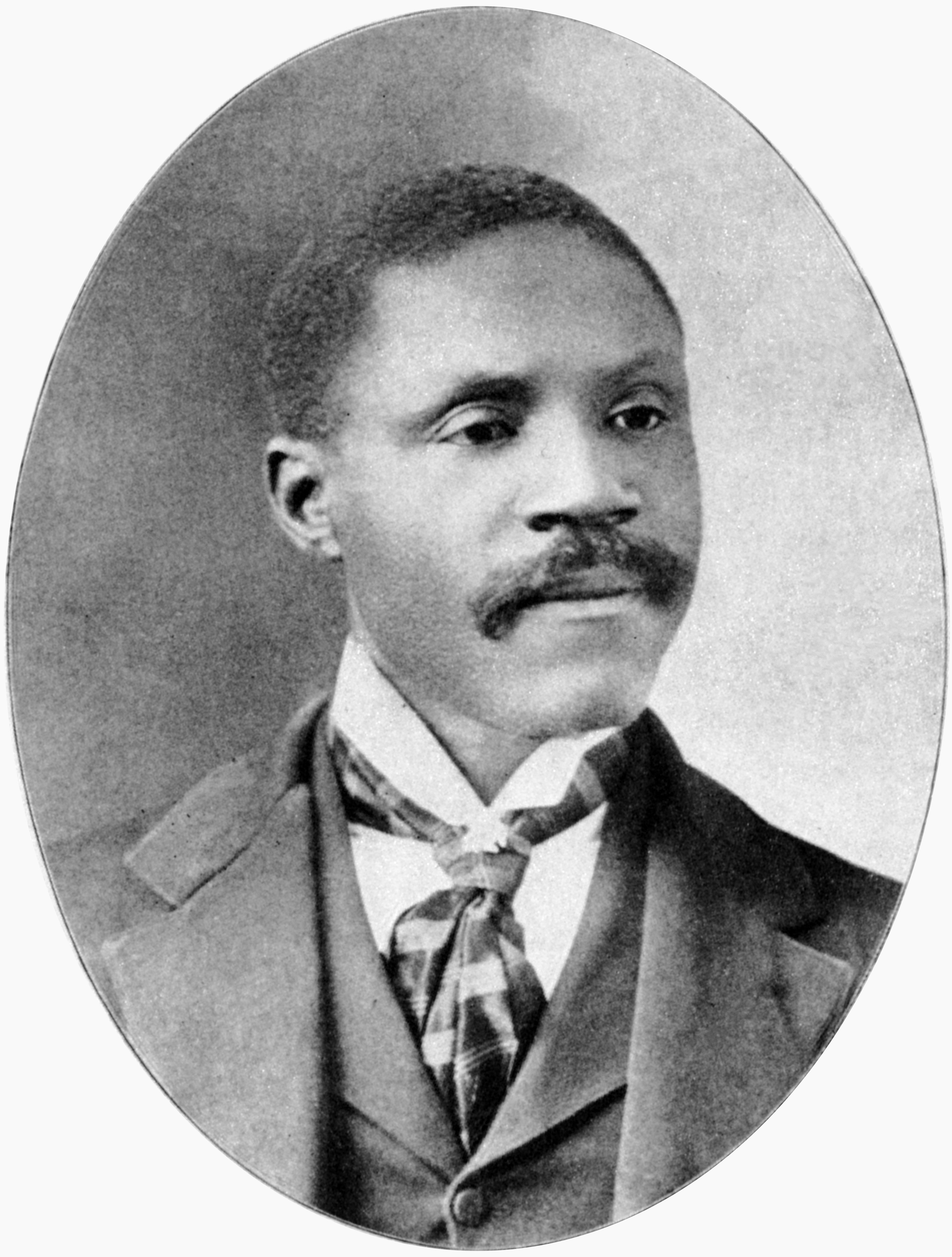 George W. Murray, member of the United States House of Representatives.